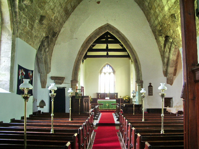 Interior of The Parish Church of All Saints, Boltongate